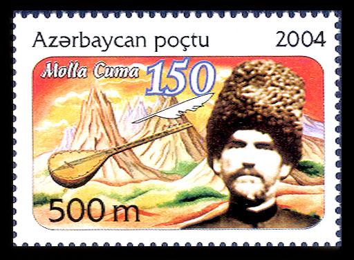 Stamp of Azerbaijan